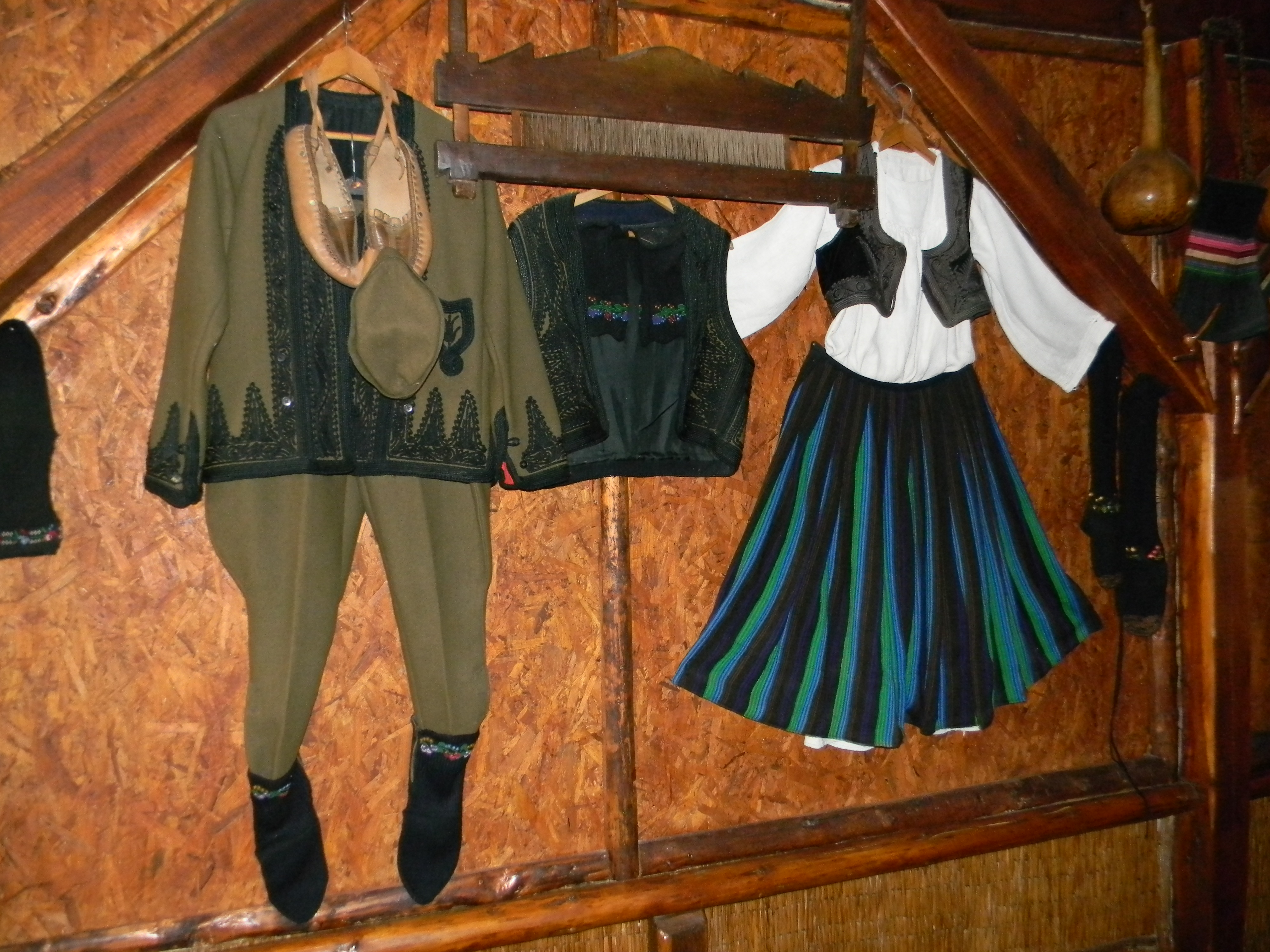 Picture taken near Stenjevac, Serbia